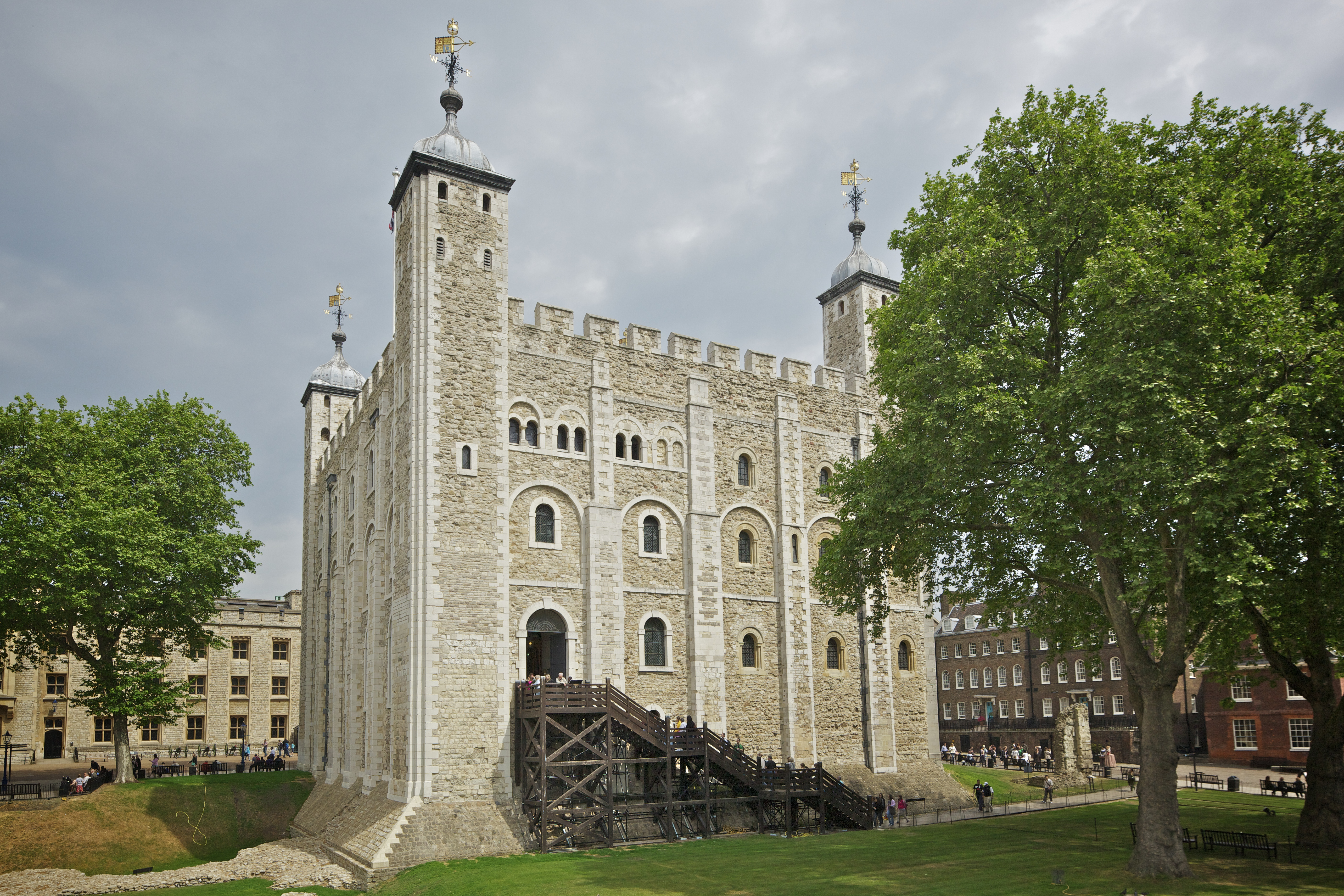 Tower of London